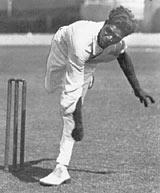 Eddie Gilbert, Queensland cricketer Source: Cricinfo